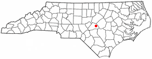 Category:North Carolina Dot Maps